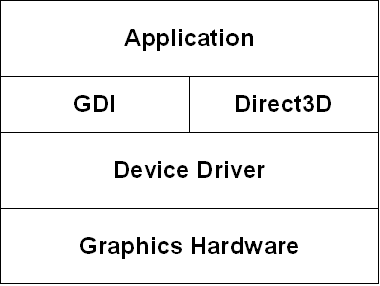 Direct3D Abstract Layer. English version. You can also get the Spanish version